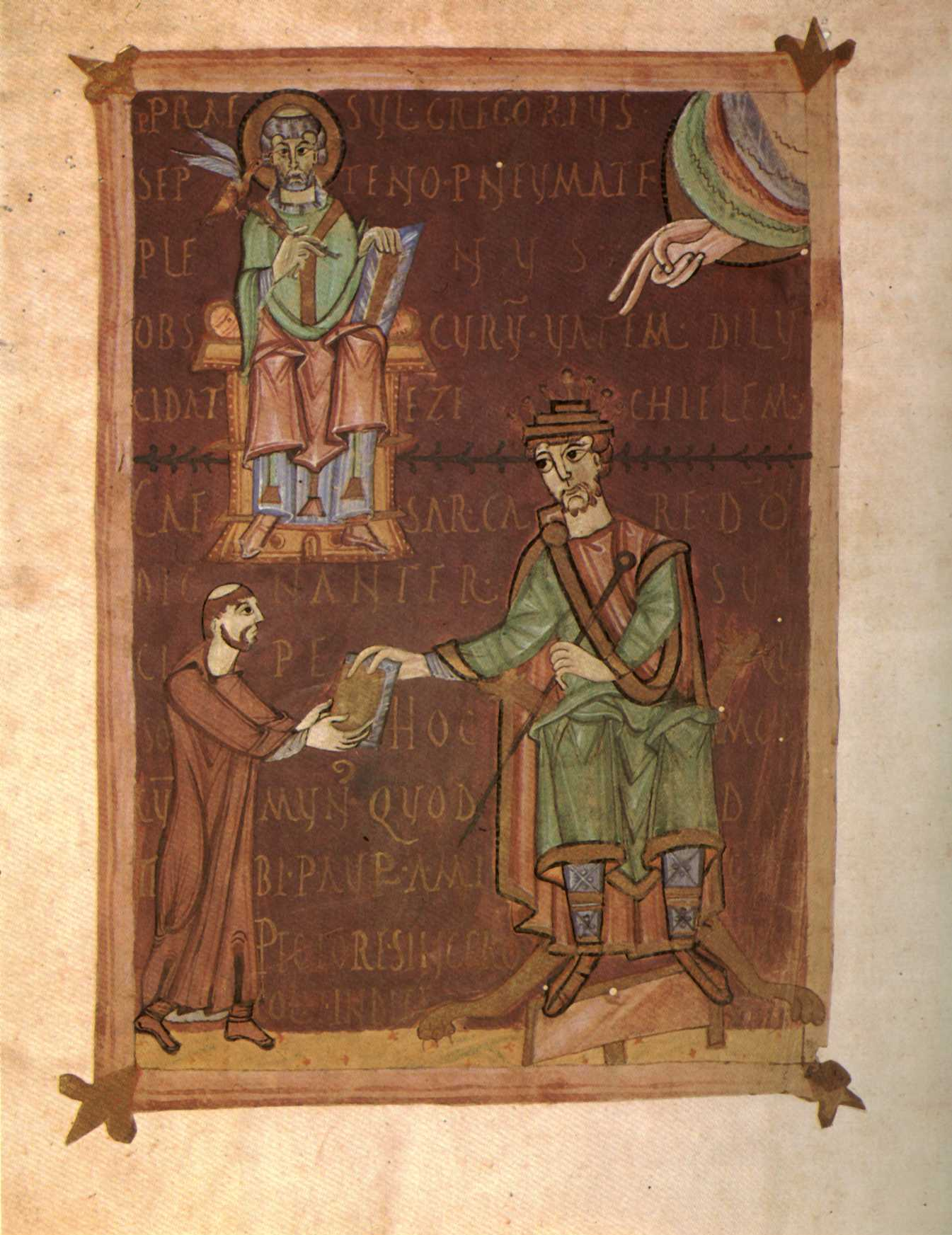 The miniature shows the scribe, Bebo of Seeon Abbey, presenting the manuscript to the Holy Roman Emperor, Henry II. In the upper left the author is seen writing the text under divine inspiration.